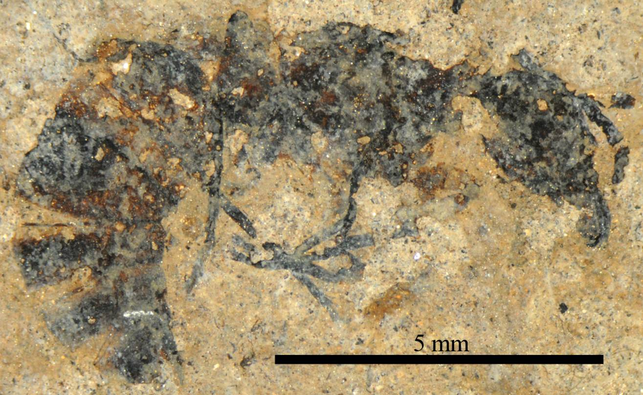 Pachycondyla petrosa Holotype, gyne or worker, in lateral view. Specimen number SMFMEI 12273